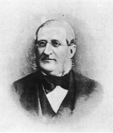 Maximlian de Chaudoir (1816-1881)